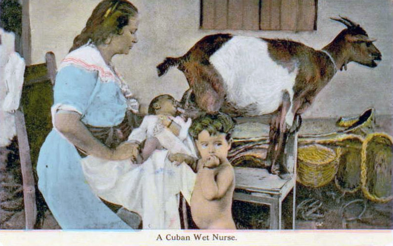 A Cuban Wet Nurse (using a goat to suckle a baby)